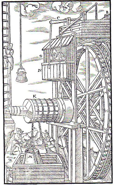 Image of whaterwheel by Agricola The original from which this was taken was published in 1555. The English translation was published in 1912. It exists in reprints with the statement "It has been made available through the kind permission of Herbert C. Hoover Mr. Edgar Rickard, Author and Publisher, respectively, of the original volume."